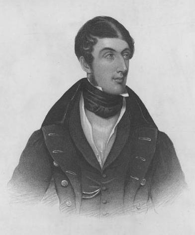 Charles Poulett Thomson, 1st Baron Sydenham, Governor-General of British North America